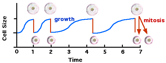 The relationship between cell division and cell size. Source: I made this diagam with ClarisDraw and PhotoShop.